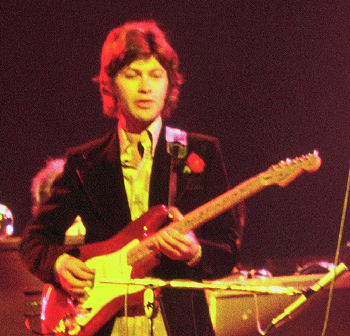 Robbie Robertson performing with the Band in 1974